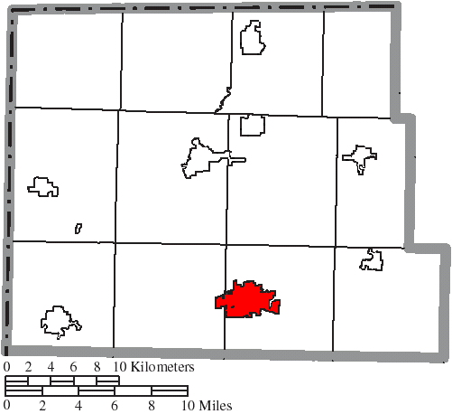 Map of the municipal and township boundaries of Williams County, Ohio, United States, as of the 2000 census, with the location of the city of Bryan highlighted. Township borders are shown only in unincorporated areas in order to differentiate incorporated and unincorporated areas more clearly.